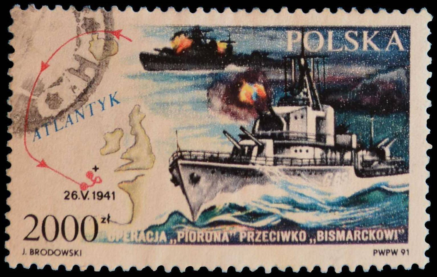 Polish post stamp issued to commemorate the participation of polish destroyer ORP Piorun in operation against german battleship Bismarck.